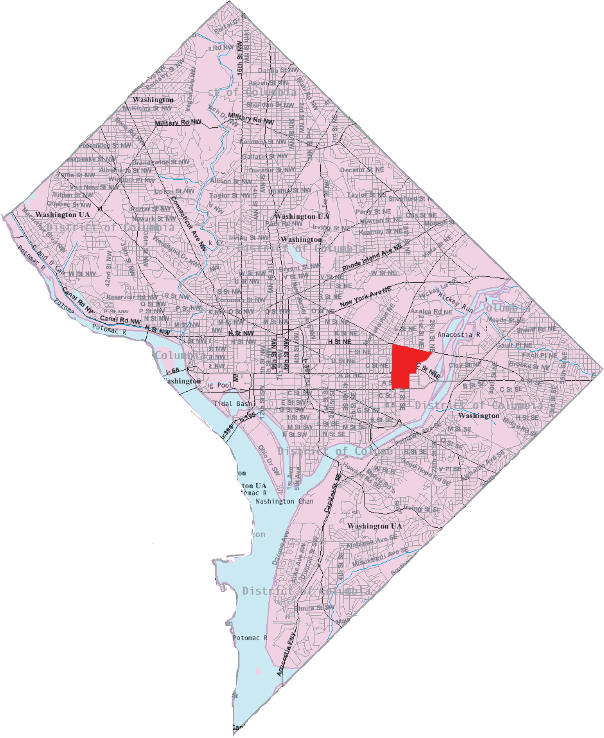 This image is a modified version of a self-generated reference map from the U.S. Census Bureau's American Factfinder at by Wikipedia user Msclguru.